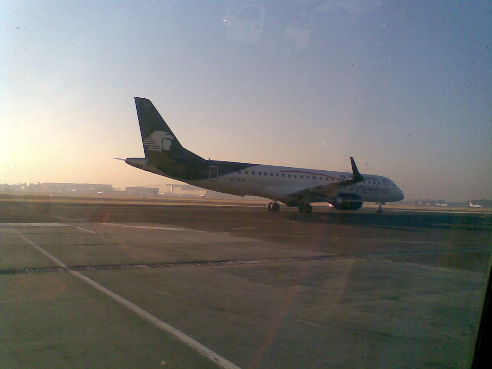 AM Embraer ERJ-190 passenger airliner